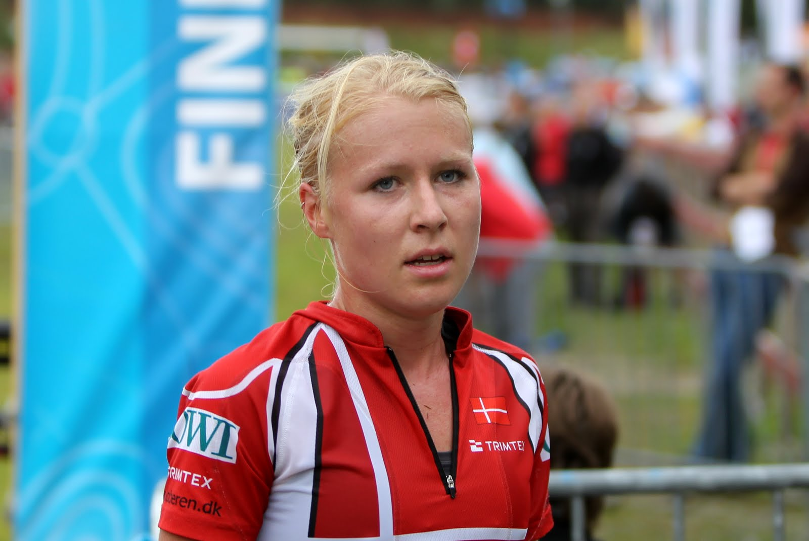 Maja Alm at World Orienteering Championships 2010 in Trondheim, Norway